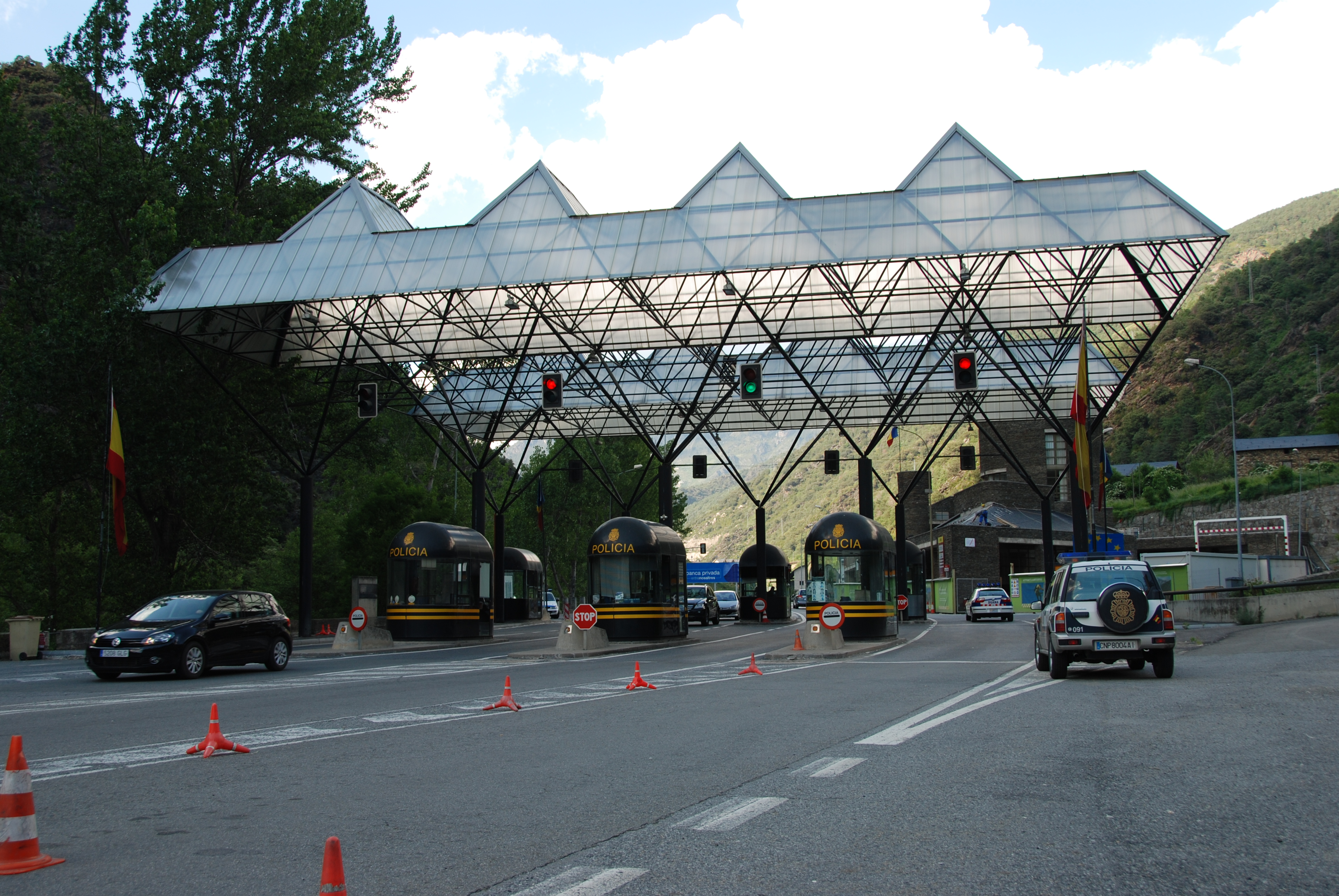 The Spanish side of the border between Spain and Andorra.